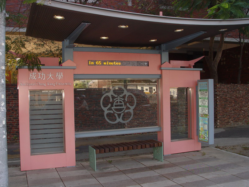 "National Cheng Kung University" bus shelter of Tainan City Bus.